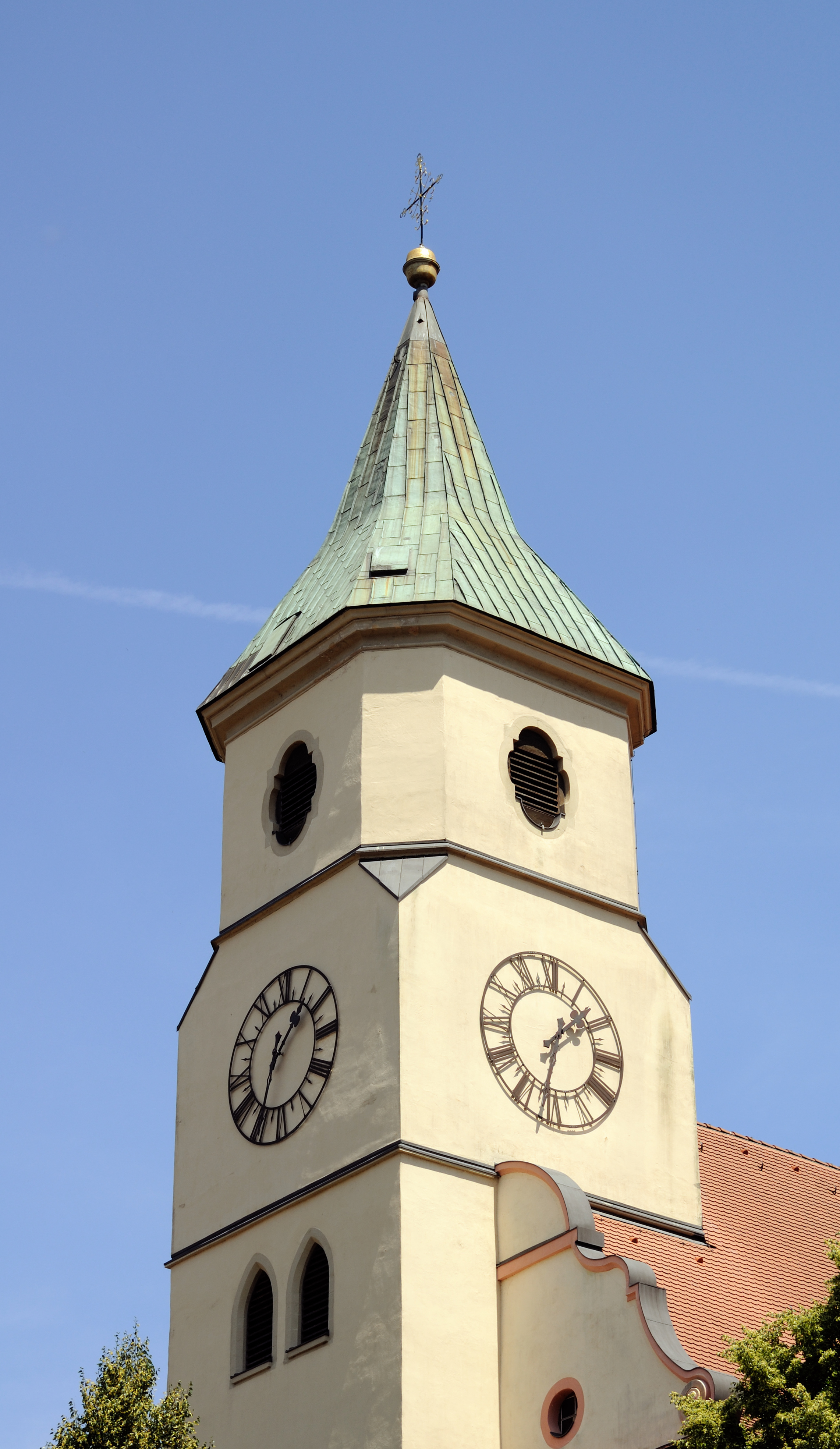 Schliengen: Saint Leodegar Church